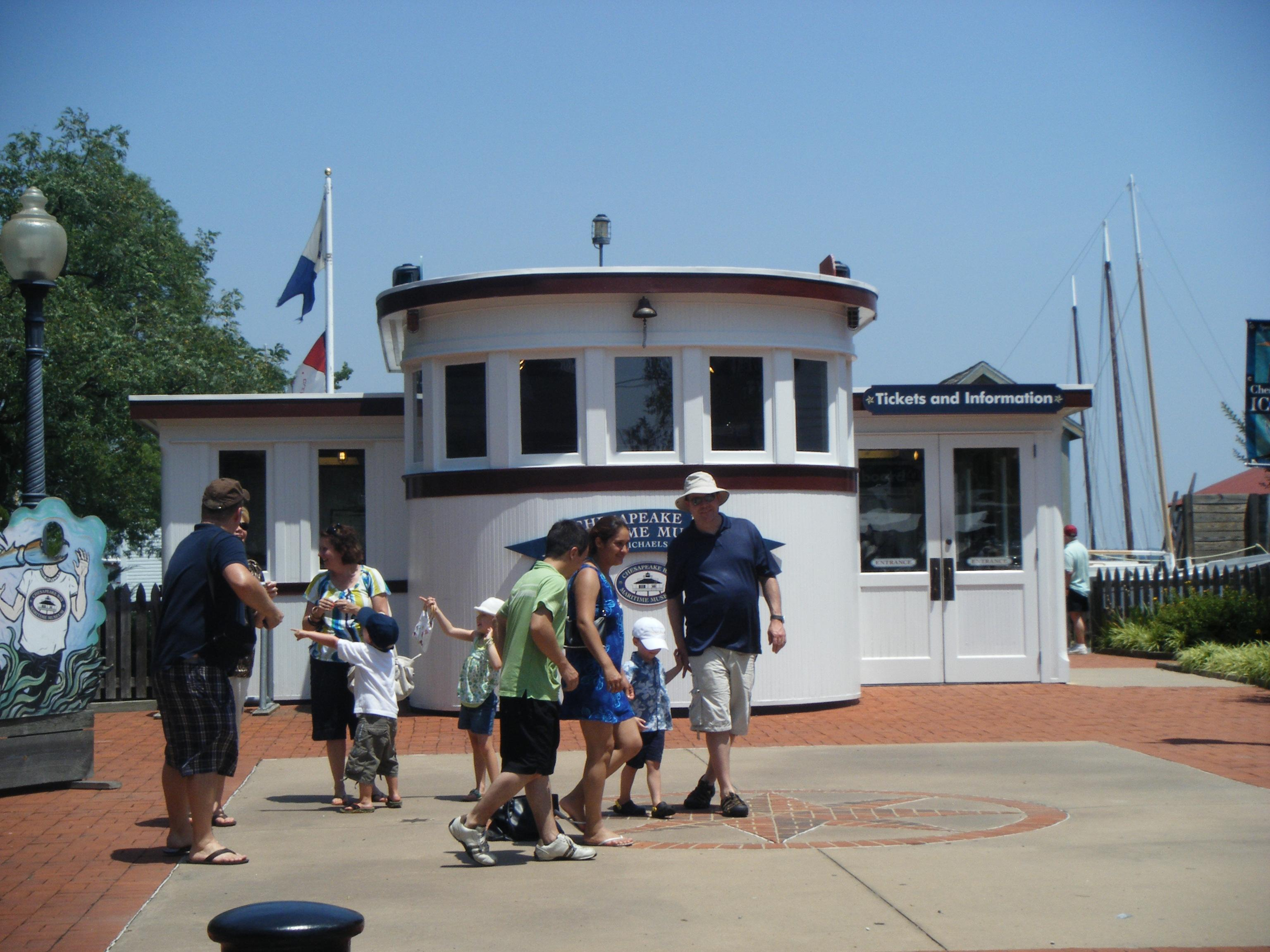 Entrance to the Chesapeake Bay Maritime Museum in St. Michaels, Maryland